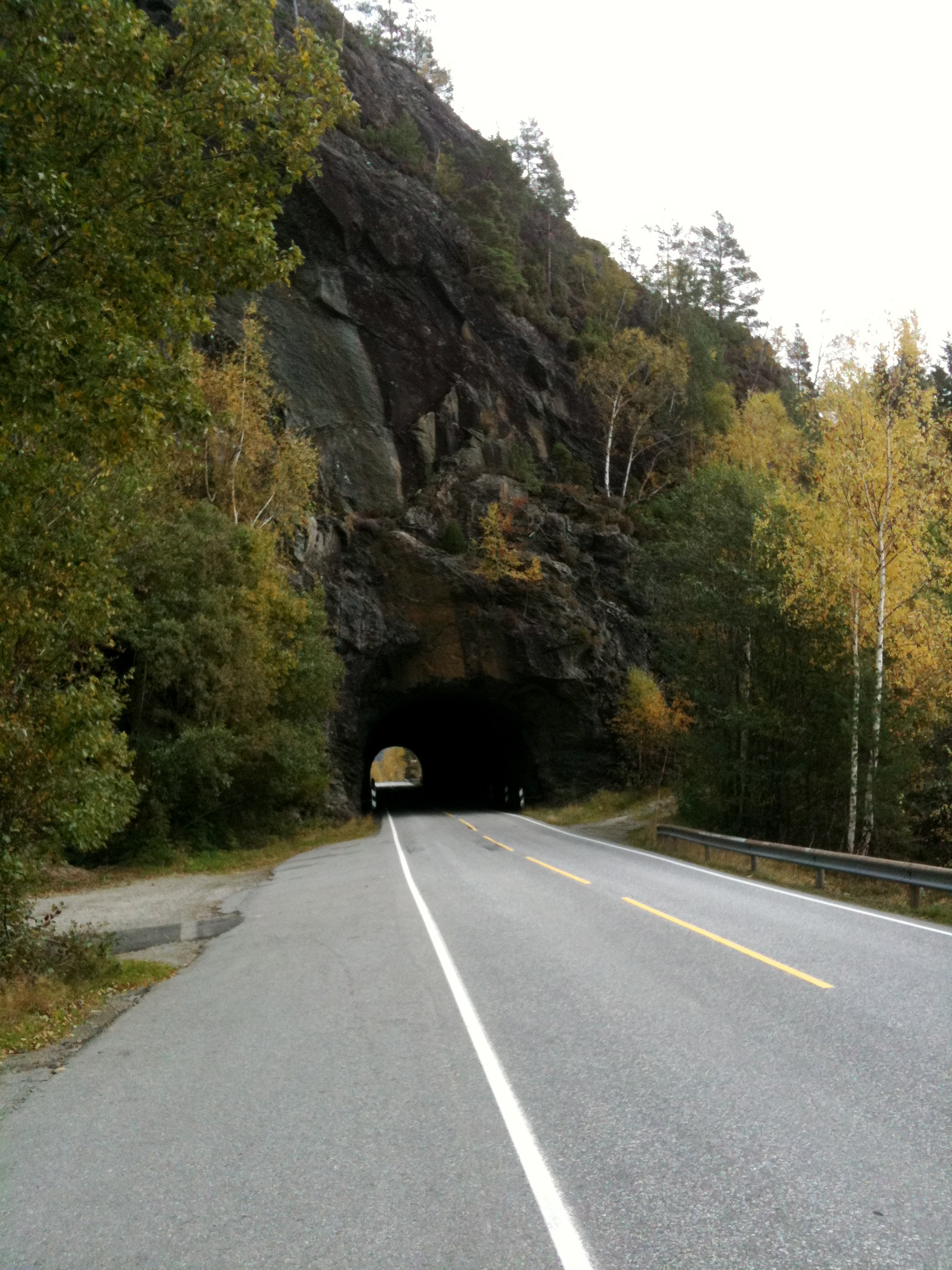 Kvaløytunnelen in the municipality of Vindafjord in Rogaland, Norway